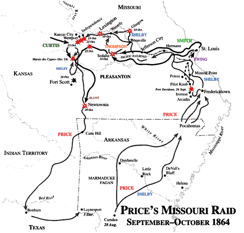 Map of Price's Missouri Raid of 1864